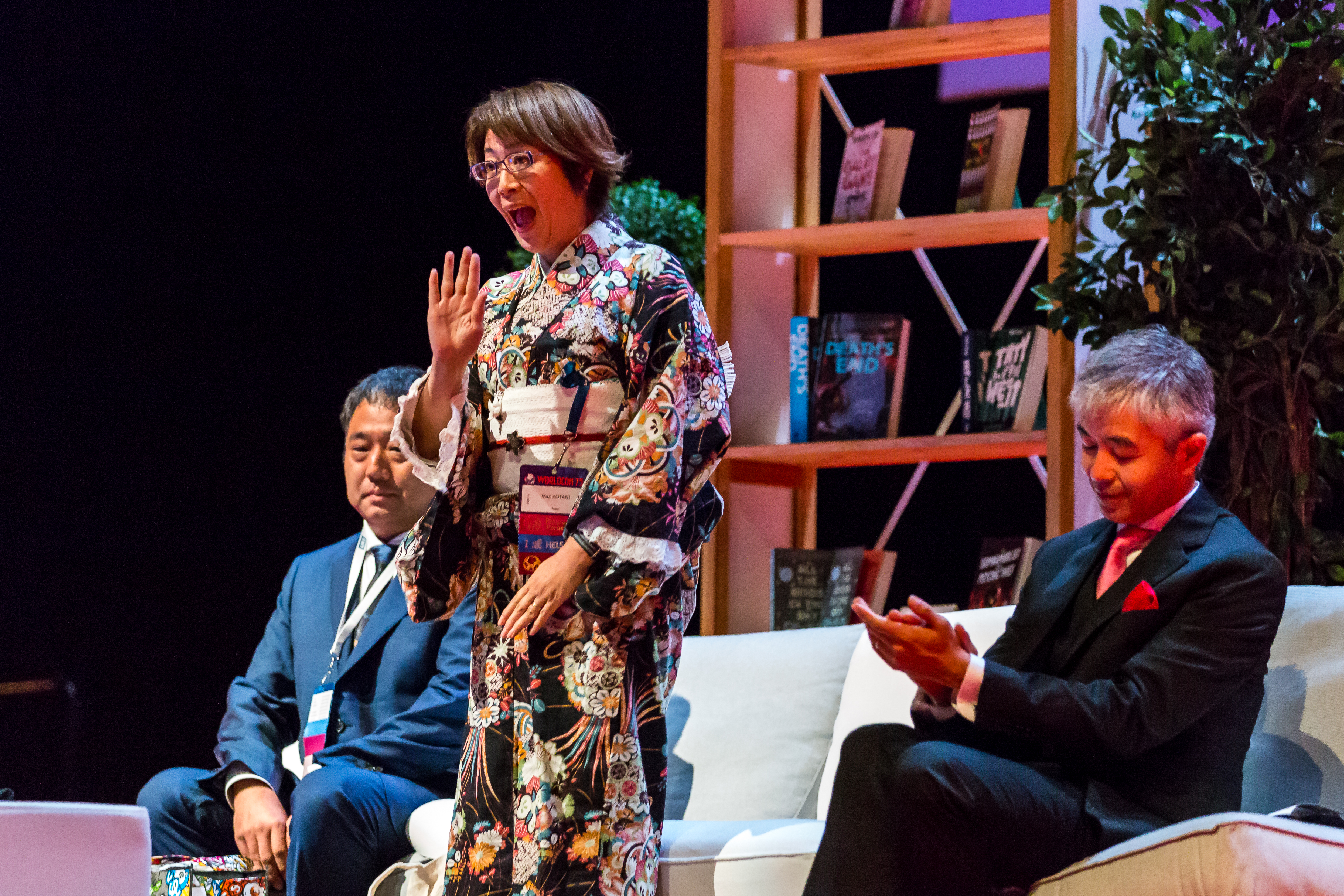 Takeshi Ikeda, Mari Kotani and Taiyo Fujii.